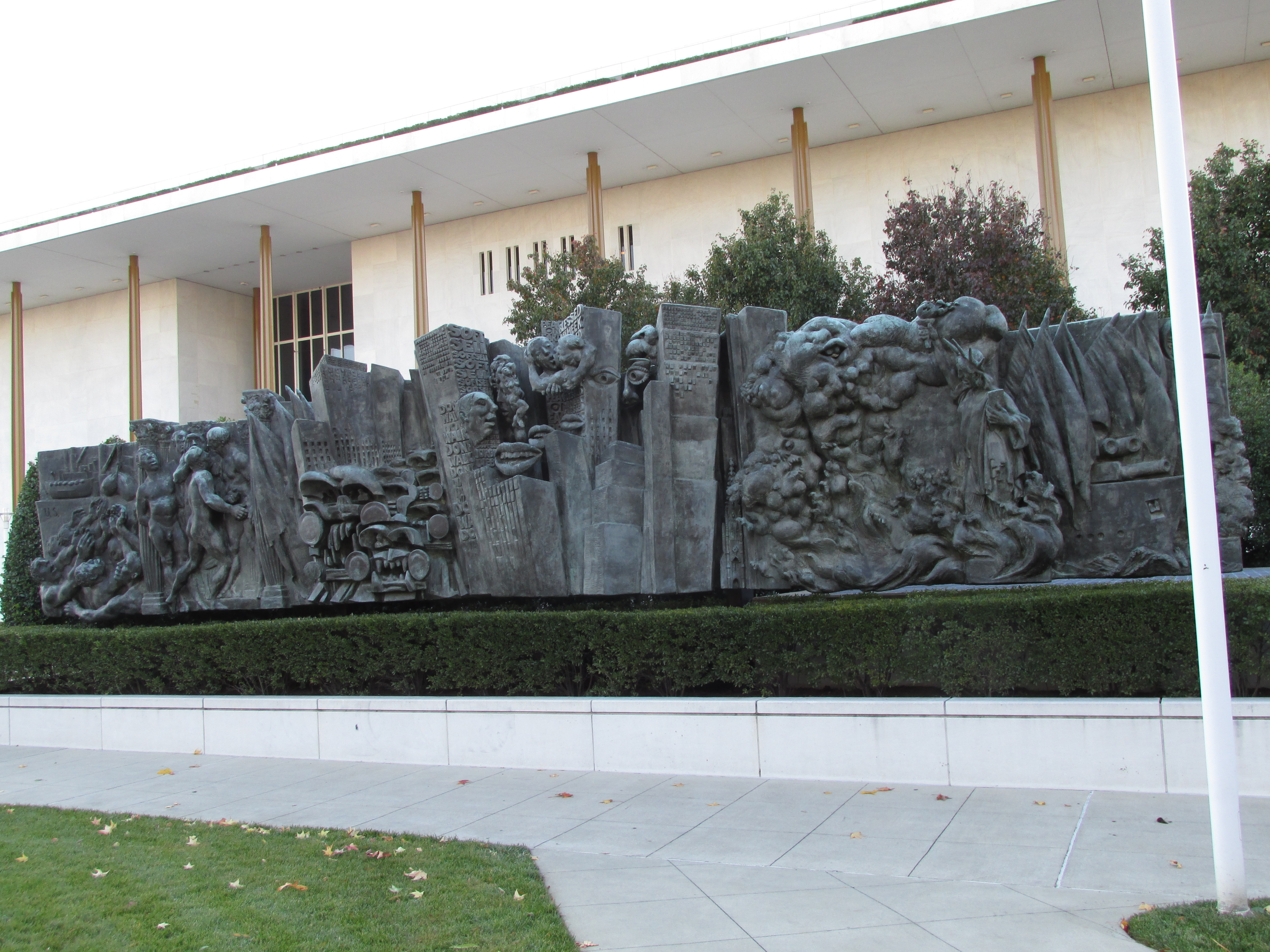 John F. Kennedy Center for the Performing Arts